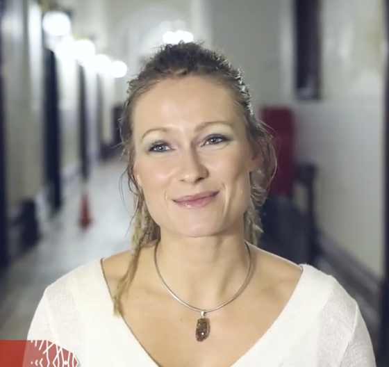 Image of Adriana Marais, South African scientist and technologist taken from behind the scenes footage of TedxCape Town 2015